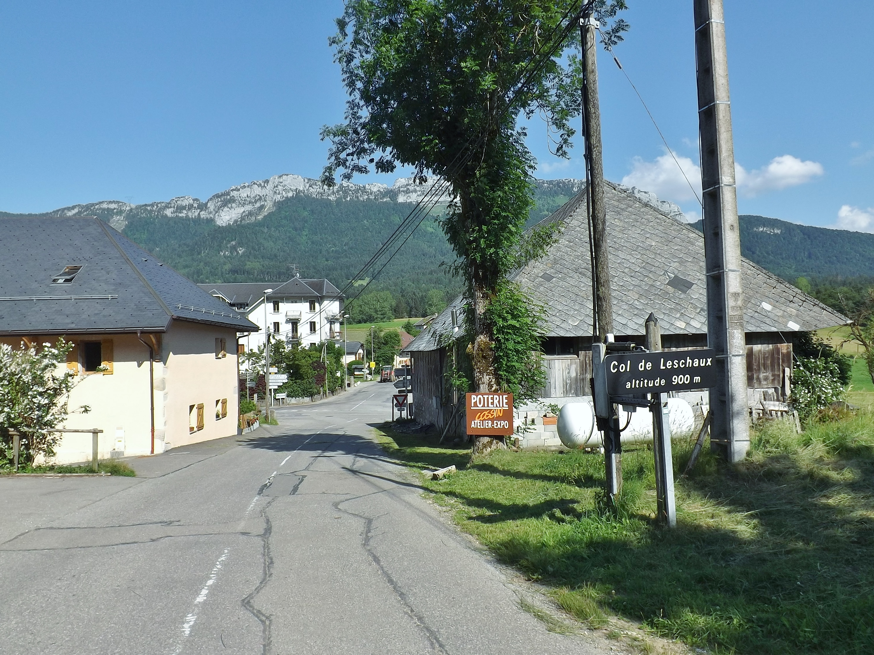 Sign of the col de Leschaux pass (900 meters high) in the French commune of Leschaux when arriving from the Semnoz mount near Annecy in Haute-Savoie.